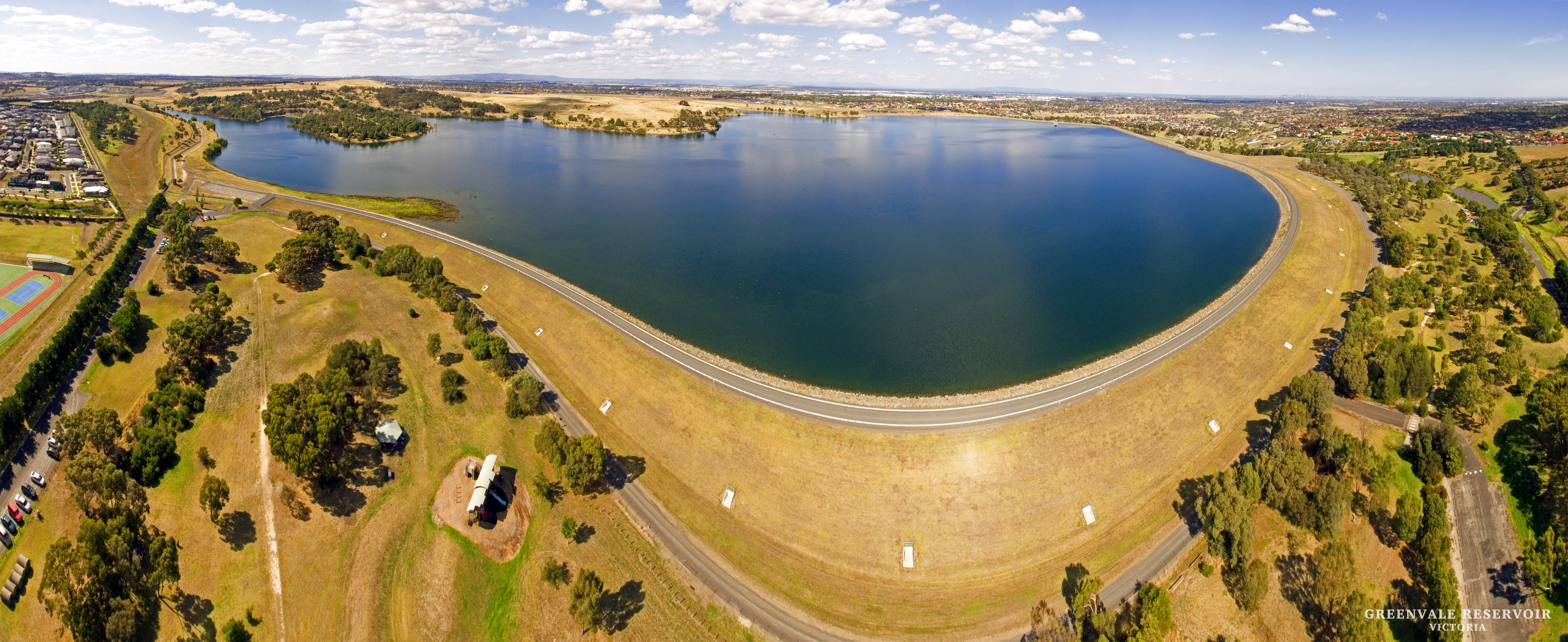 Aerial panorama of Greenvale Reservoir.